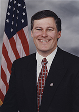 Jay Inslee's official portrait for the 103rd Congress (1993-95).